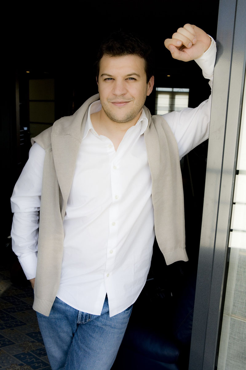 Guillaume Musso spring 2009